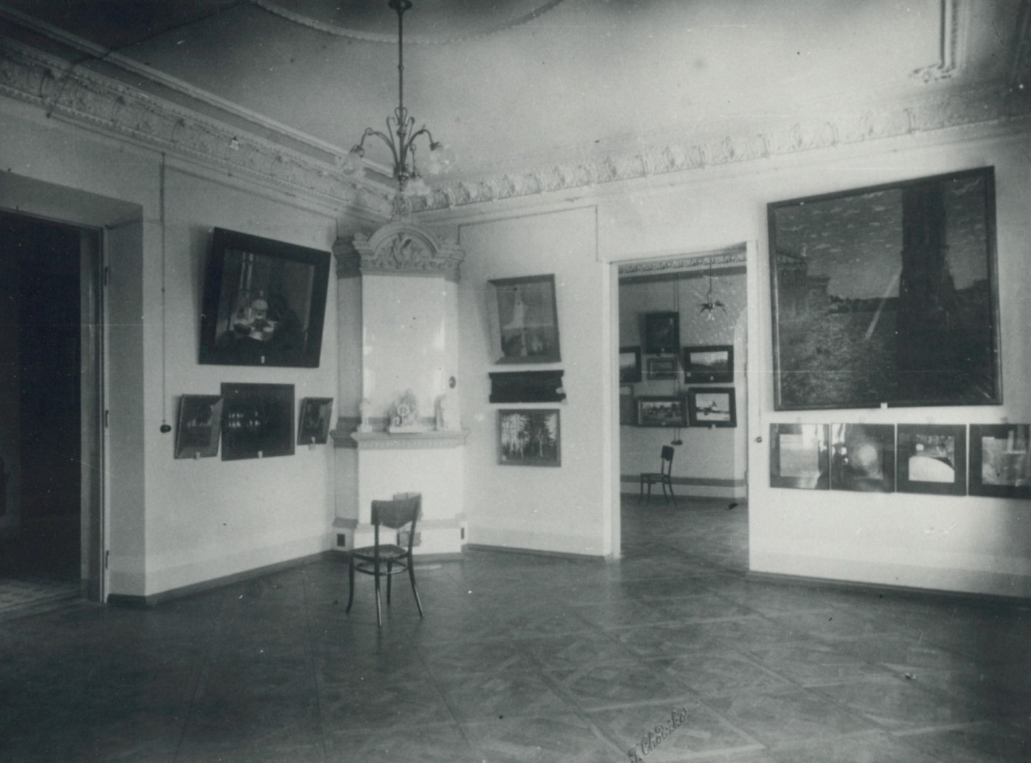 1st Lithuanian art Exhibition organized by the Lithuanian Art Society